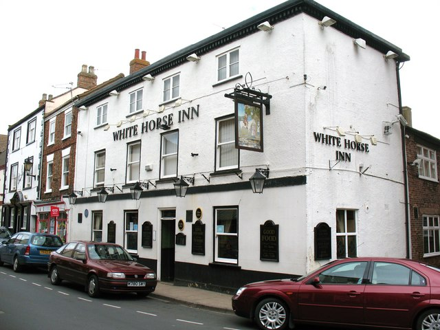 The White Horse Inn, Howden, East Riding of Yorkshire, England.Public House in the centre of Howden.